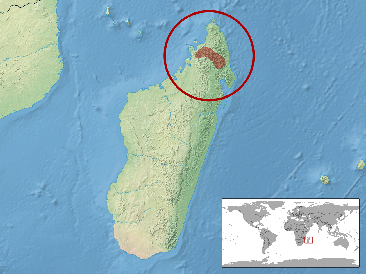 geographic distribution of Brookesia betschi (Native: Madagascar)